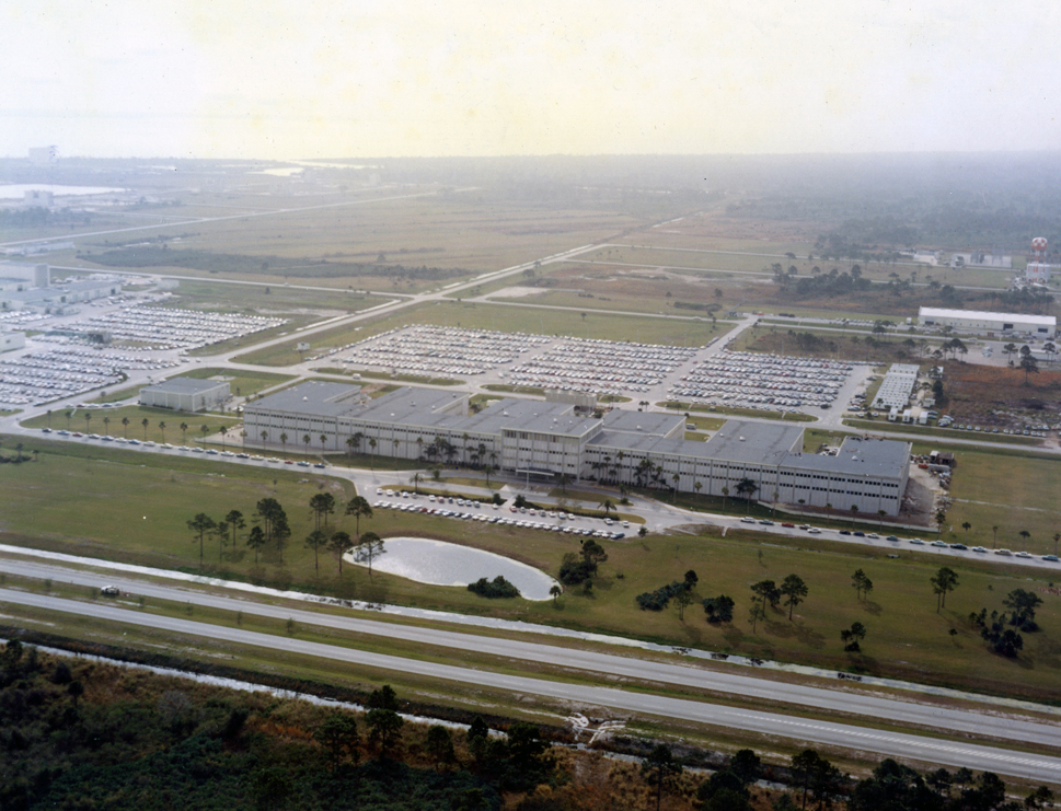 The Headquarters Building at Florida's Kennedy Space Center.